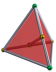 Water gaz electricity enigma in 3 D.